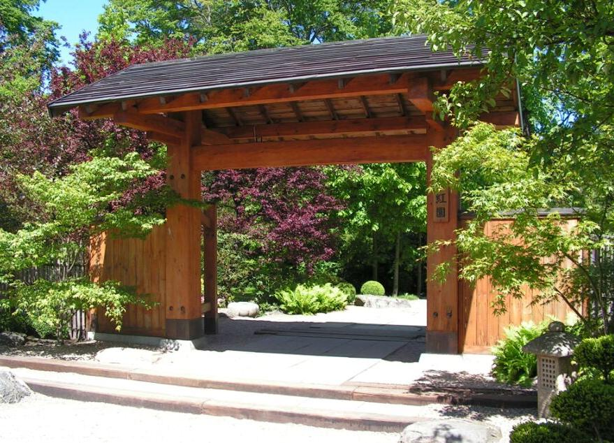 Japanese Garden in Wrocław, Poland.